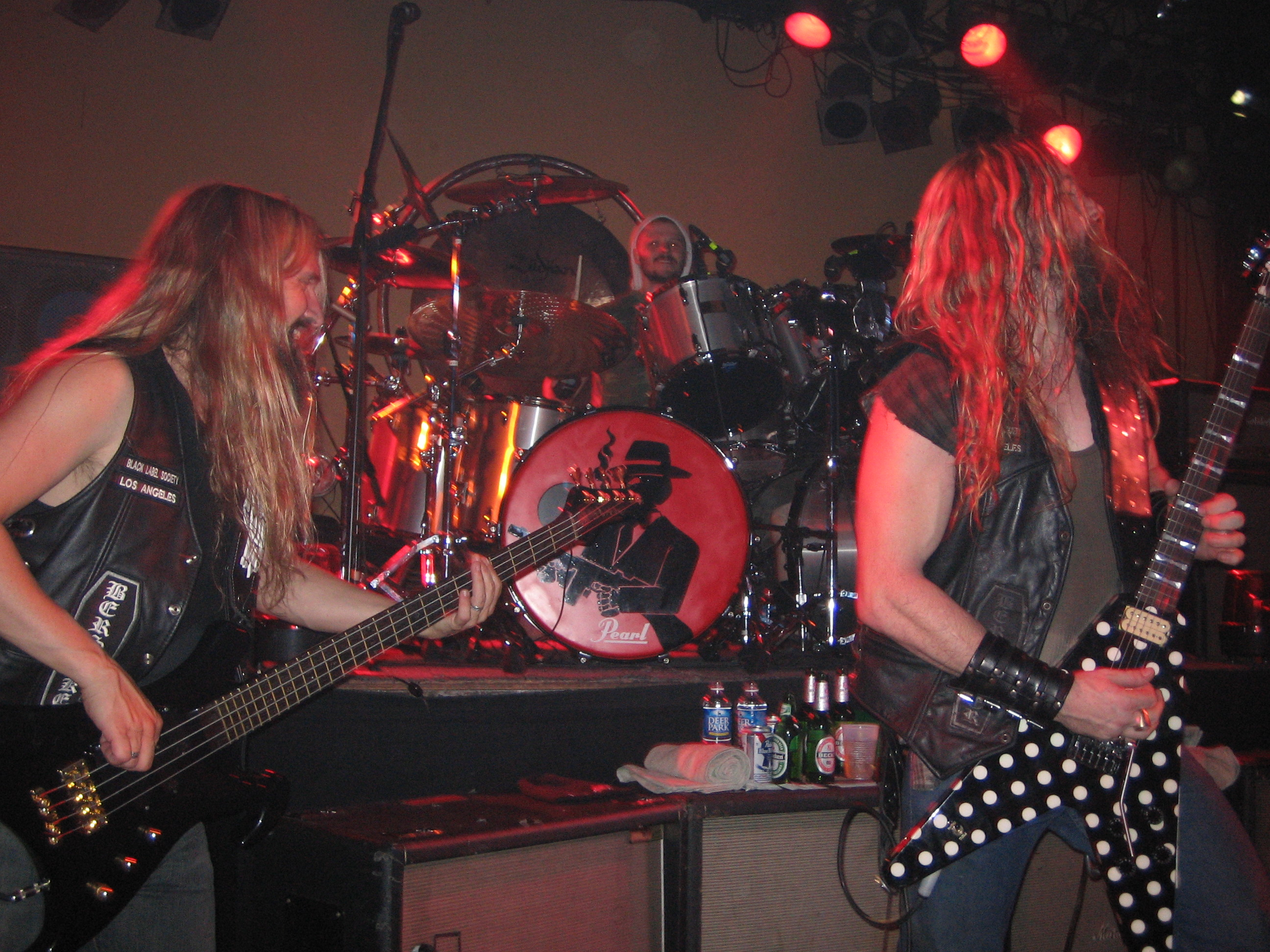 Black Label Society live at Jaxx Nightclub in Springfield, VA